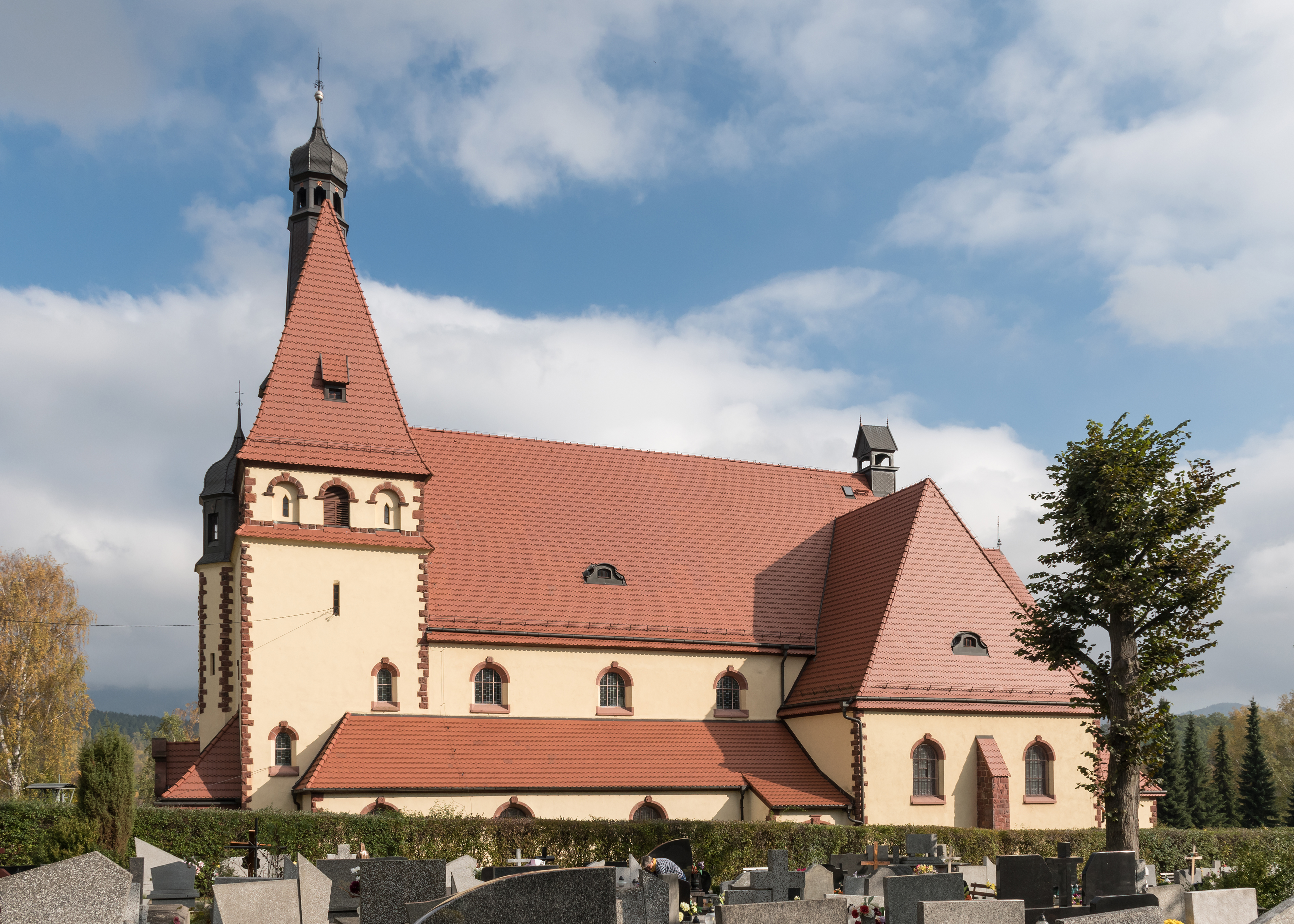 Saint Barbara church in Nowa Ruda